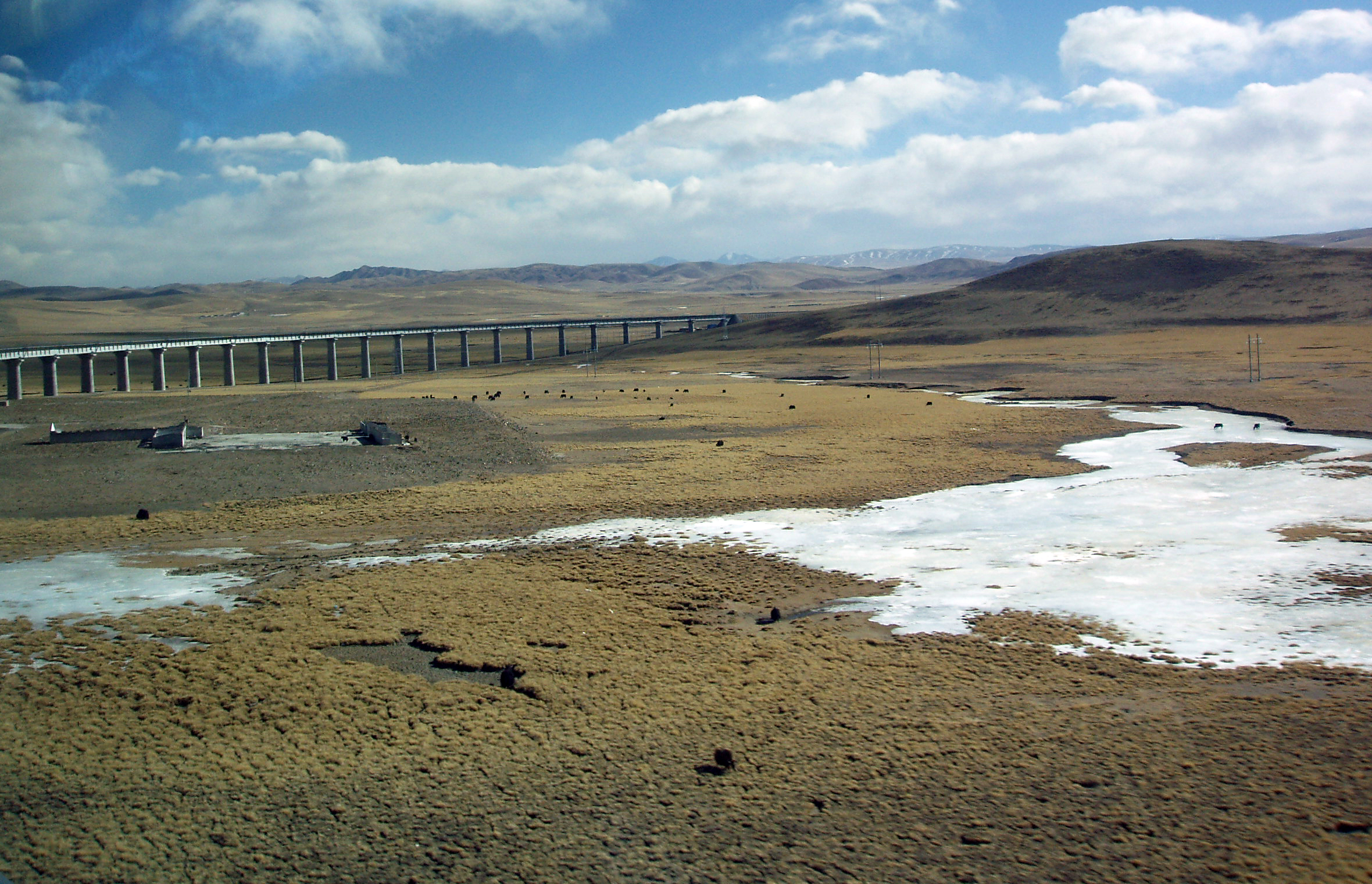 Tibetan railway bridge, Qingzang railway.